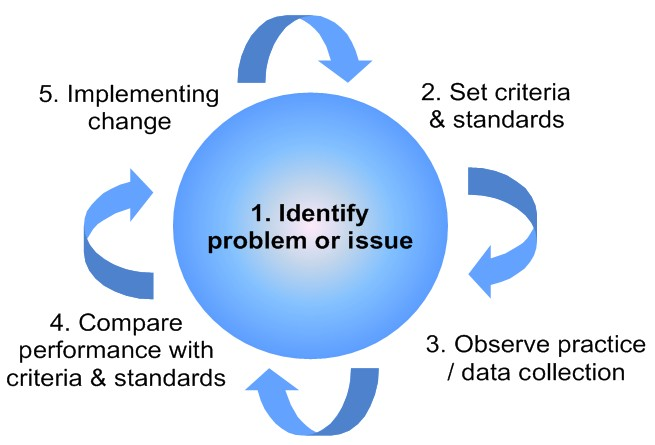 The 5 stages of completing ONE audit cycle. Each audit process requires at least two of these cycles: the first to review practice, recommend & implement changes. the second to review the impact of the changes and recommend further changes if necessary. Some audit cycles are ongoing and therefore go round this cycle continuously. (Thanks to Leicester PCAG